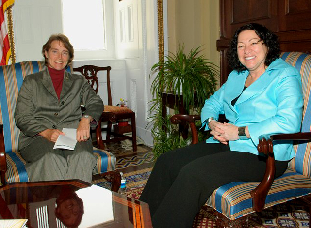 Senator Blanche Lincoln of Arkansas with Supreme Court nominee Sonia Sotomayor.